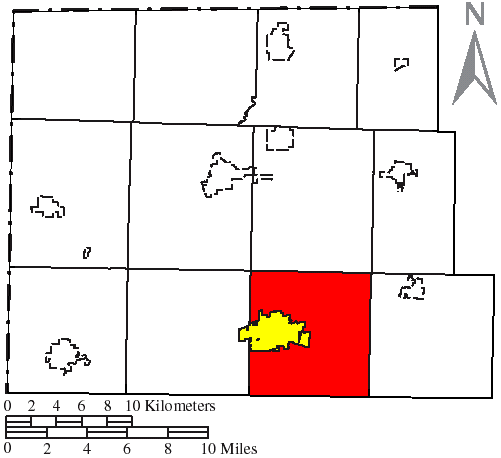 Made by the US Census and modified by myself